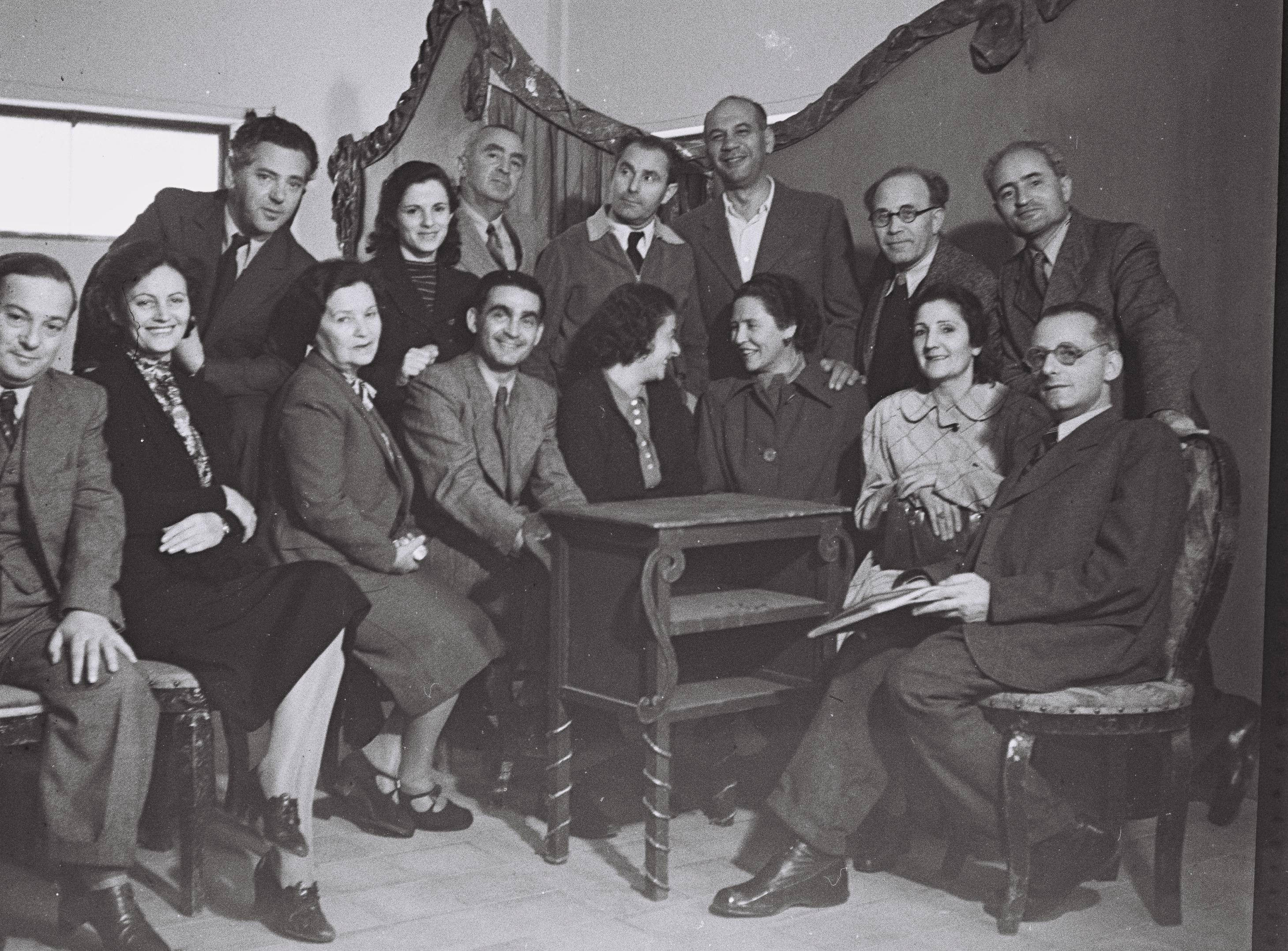 A group photo of actors in the HaBima Theatre